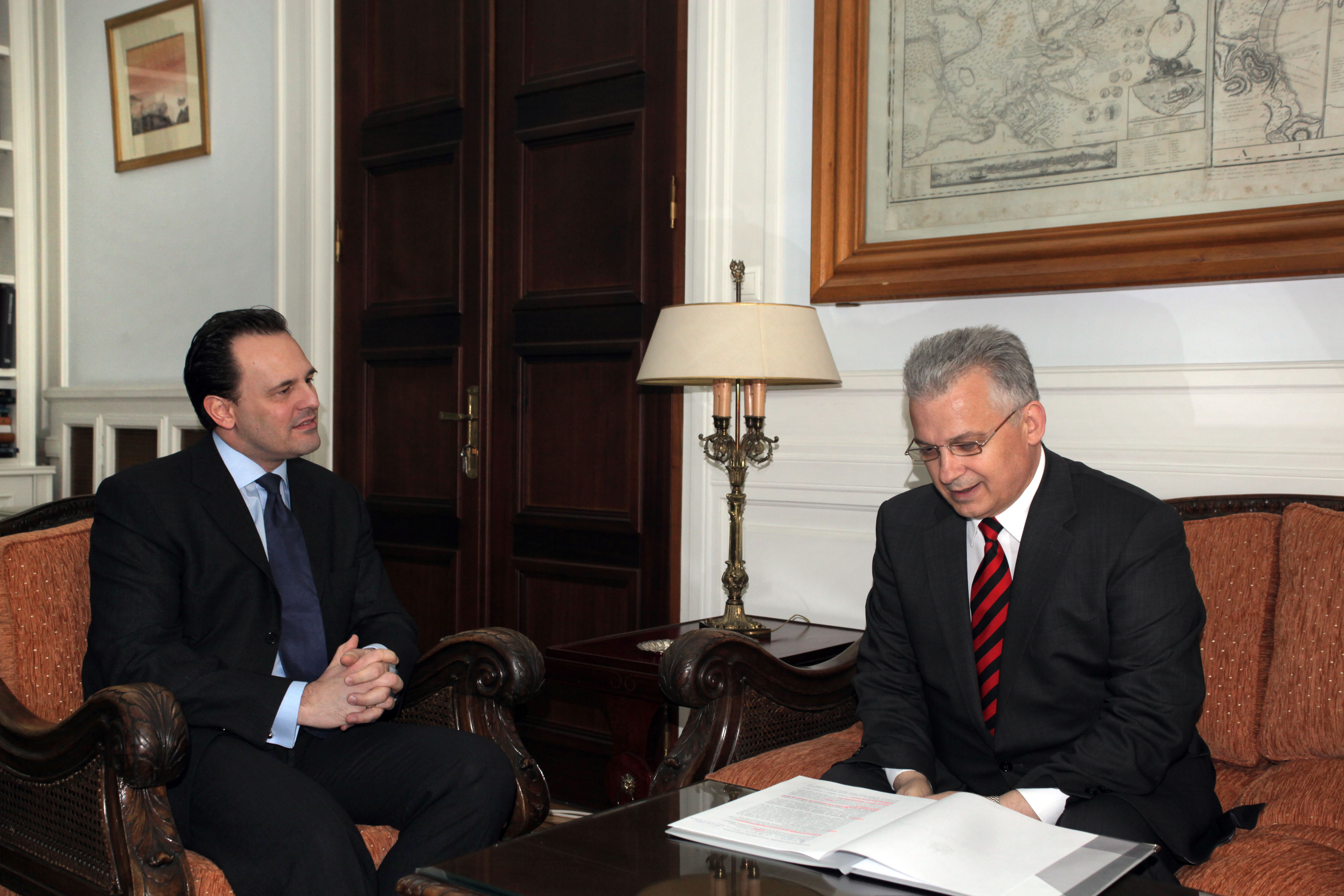 Foreign Minister Dimitris Droutsas received the Moldovan Ambassador to Athens, Mr. Michai Balan, in a protocol meeting at 15:00 on 15 March 2011, at the Foreign Ministry